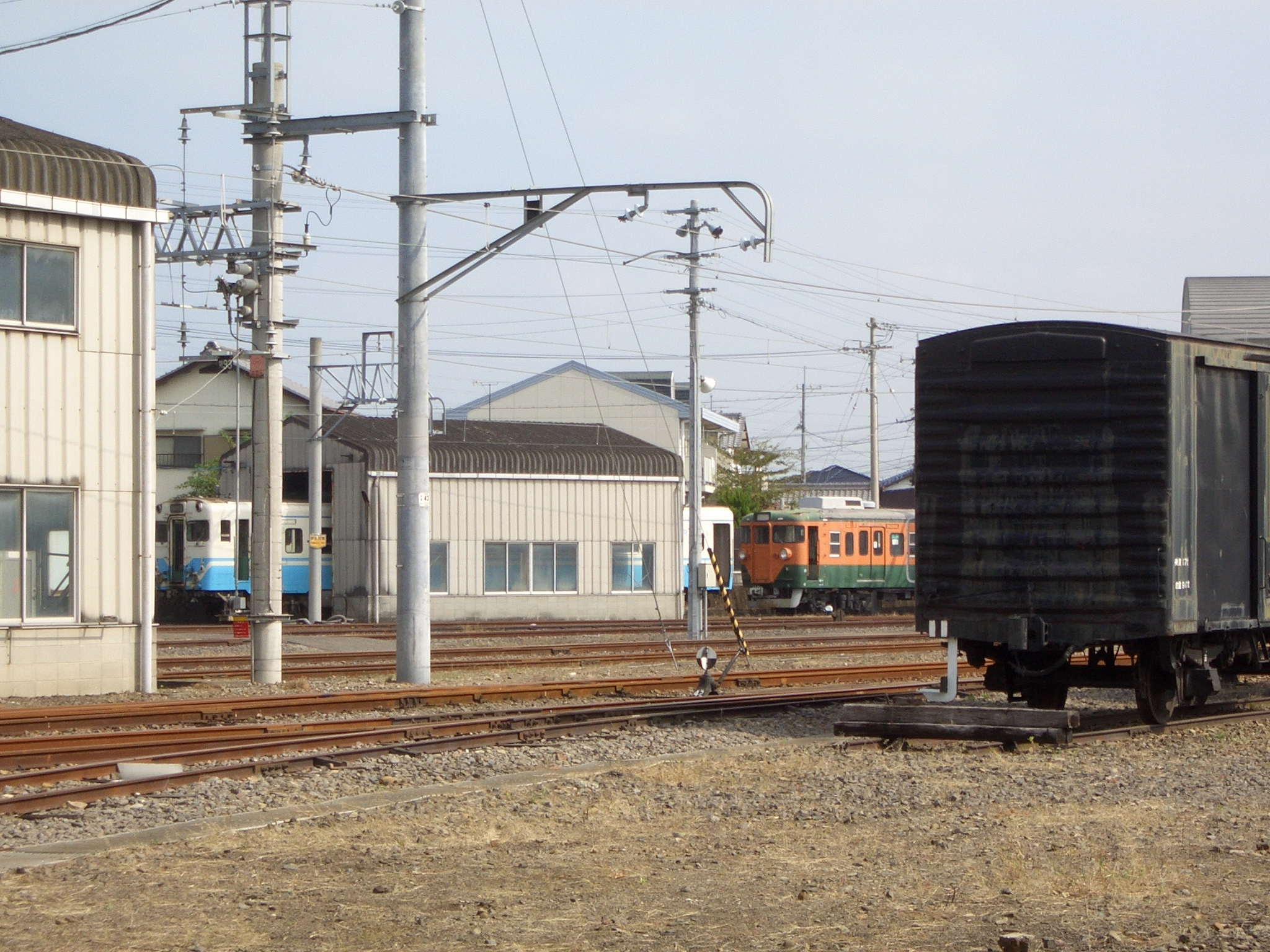 The train maintenance factory of Shikoku Railway Company at Tadotsu, Kagawa, Japan.